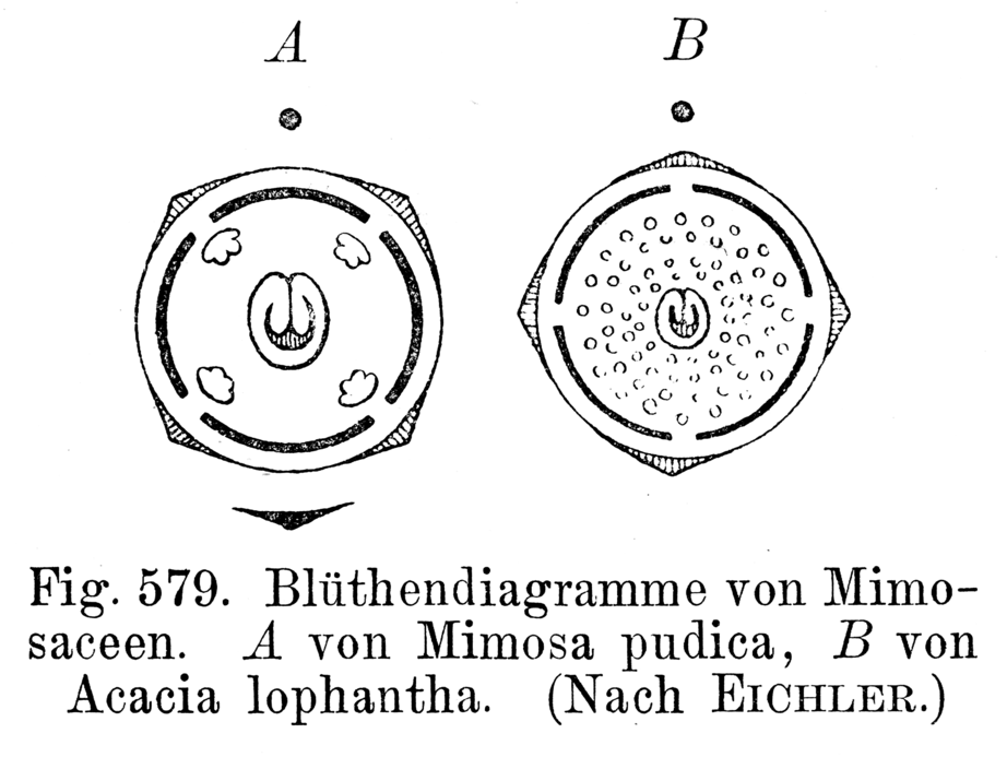 Flower diagrams of Mimosaceae: A Mimosa pudica, B Acacia lopantha